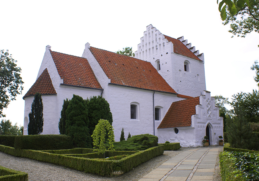 Grandlose Church in the small village of Lille (Small) Grandlose, south of Holbæk, Denmark